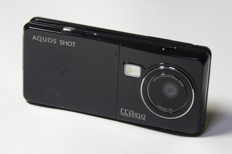 docomo PRIME series SH-06A mobile phone (back)